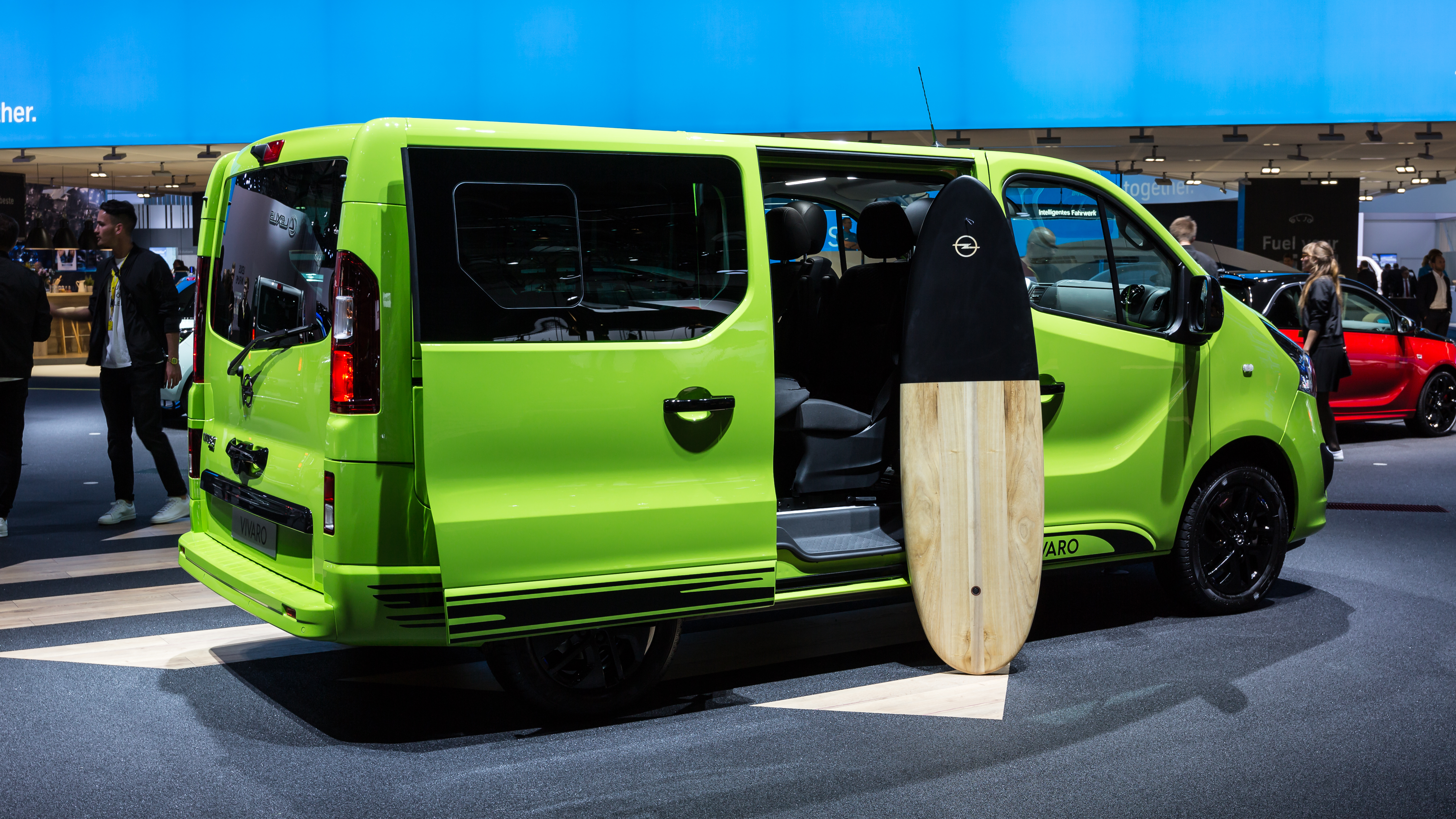 Opel Vivaro Life, IAA 2017